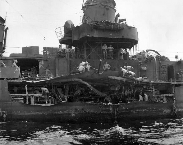 View of the Kamikaze-damage suffered by the U.S. Navy destroyer-minelayer USS J. William Ditter (DM-31). She was hit off Okinawa, Japan, on 6 June 1945.